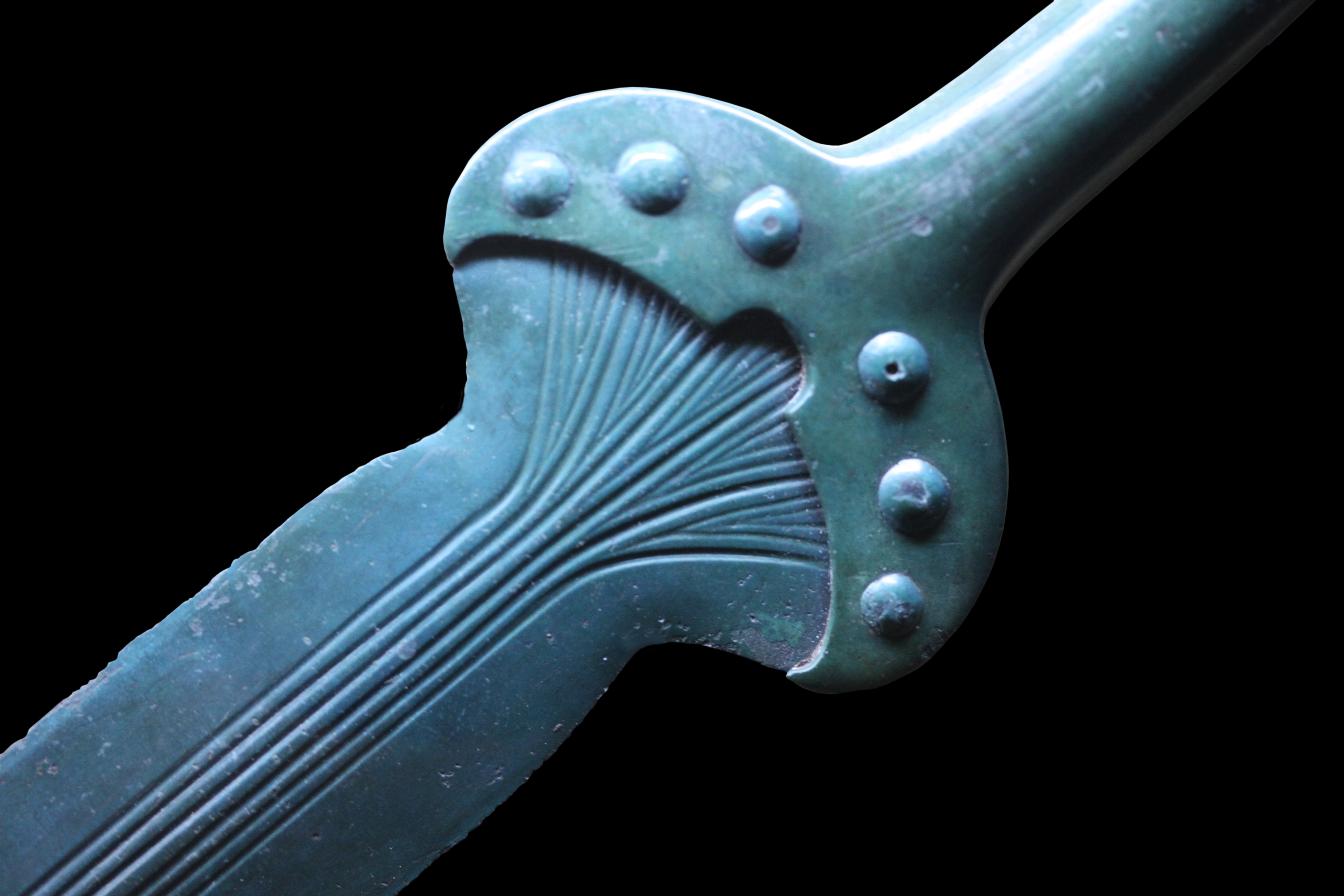 Bronze sword from the Gallo-Roman Museum of Lyon